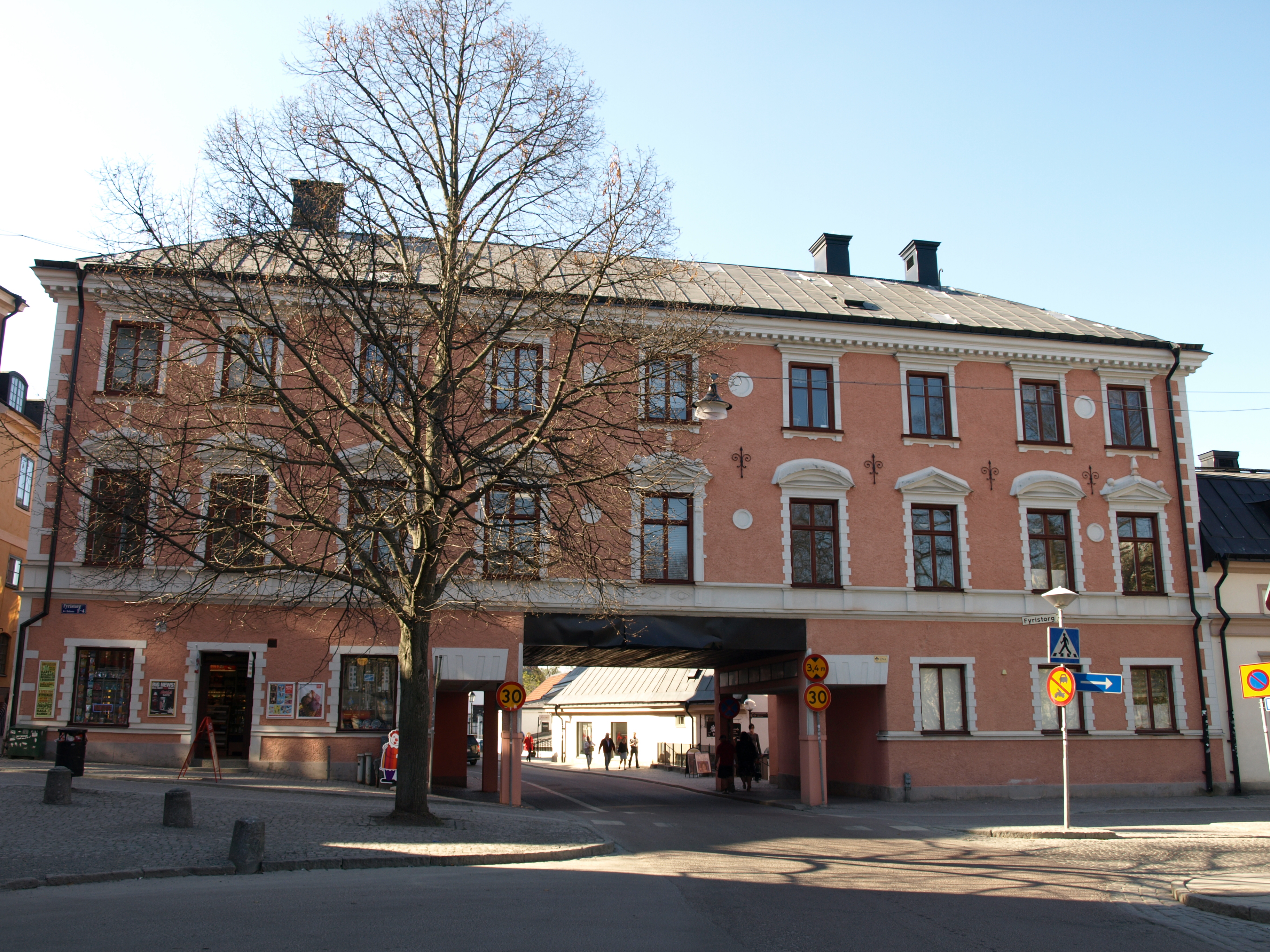 "Gillbergska genomfarten", Uppsala, Sweden